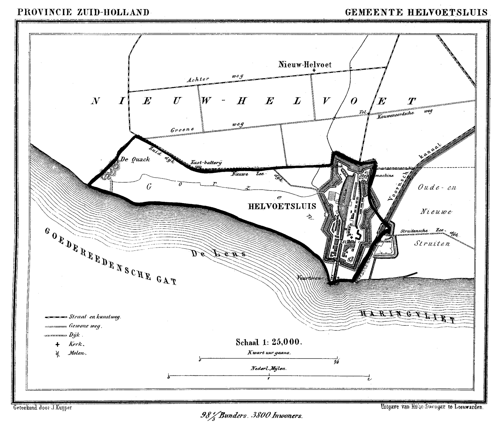 Historic map of Hellevoetsluis, the Netherlands